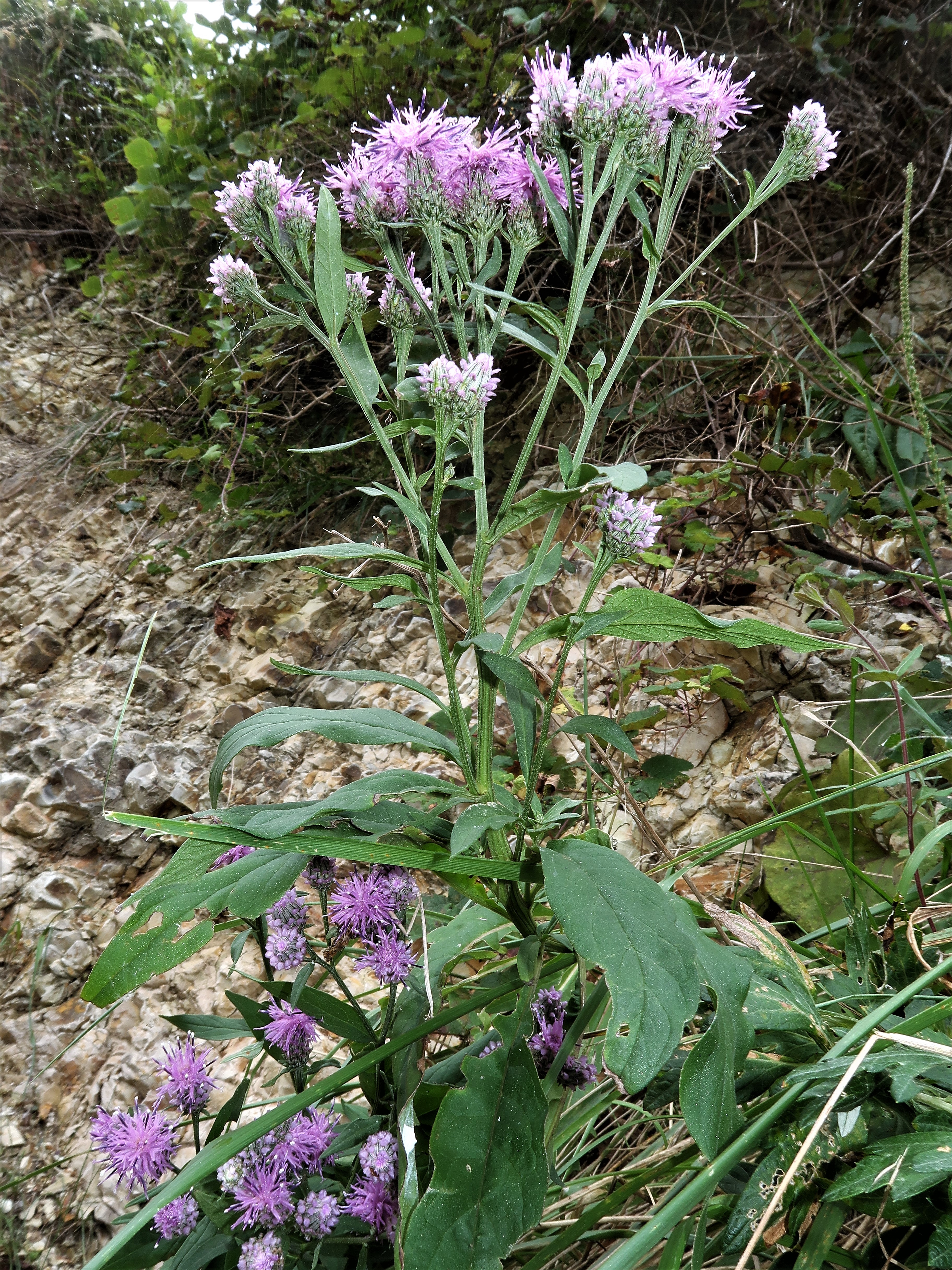 Saussurea nakagawae, Sado Island, Niigata pref., Japan